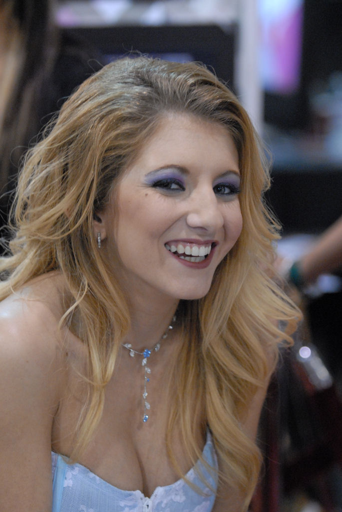 Vivian West at AVN Adult Entertainment Expo 2008